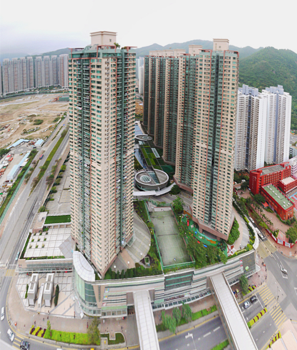 Park Central Phase 1,2 and 3